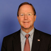 Bill Flores, member of the United States House of Representatives.